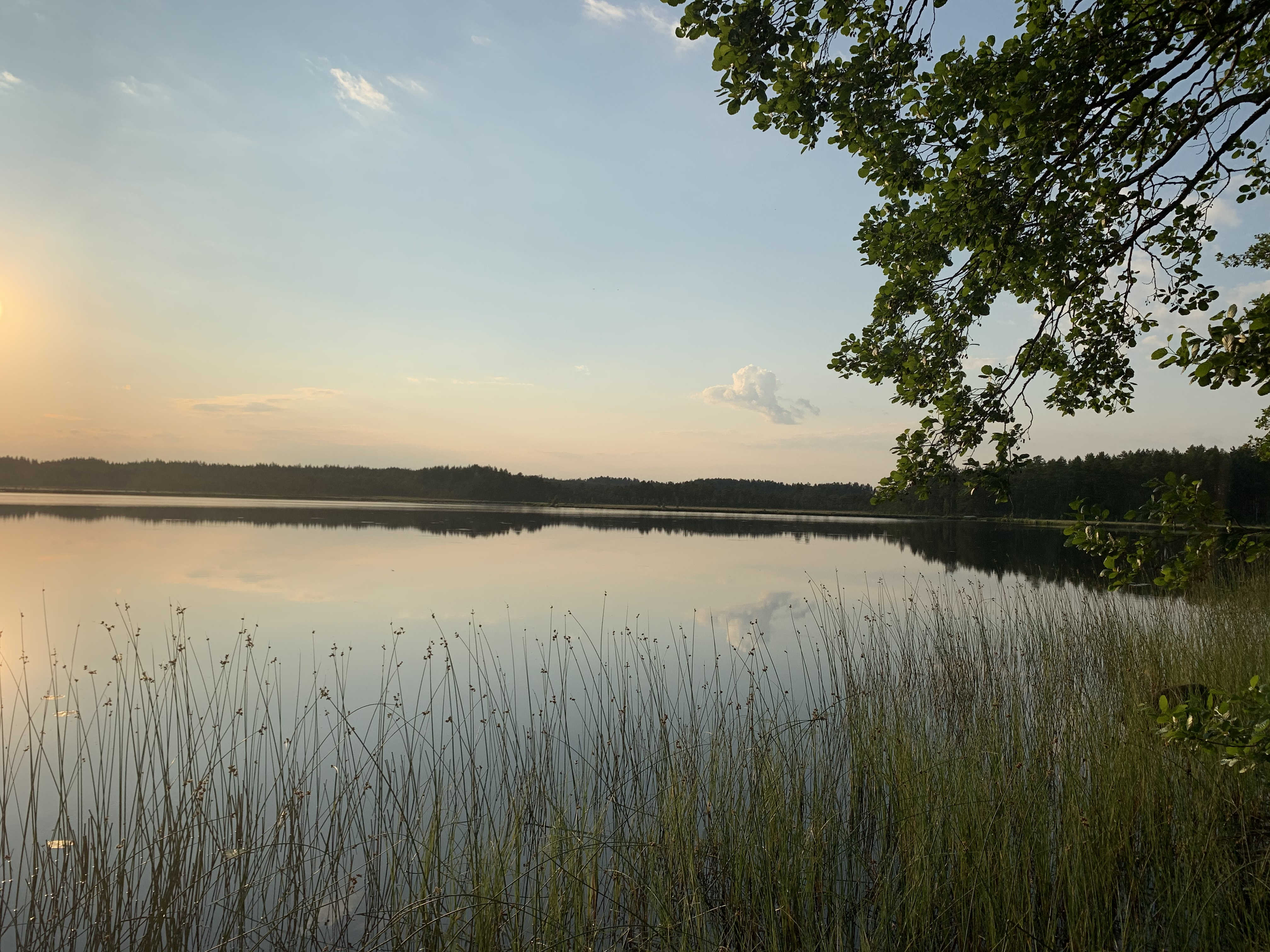 Lake in Torsby municipality, Sweden